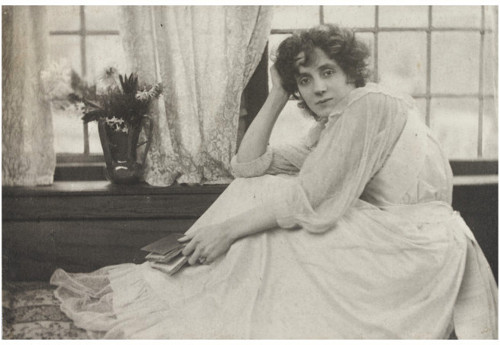 Mrs Patrick Campbell